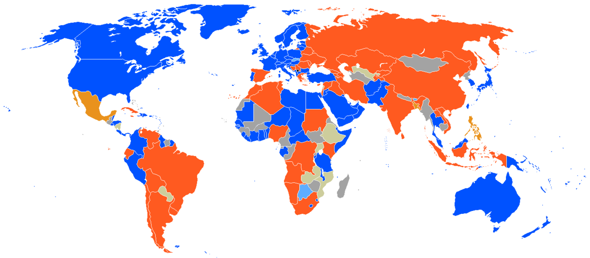 Map of international recognition of Kosovo's independence (work in progress). See "other versions" for alternative file format and other interpretations of the same data.